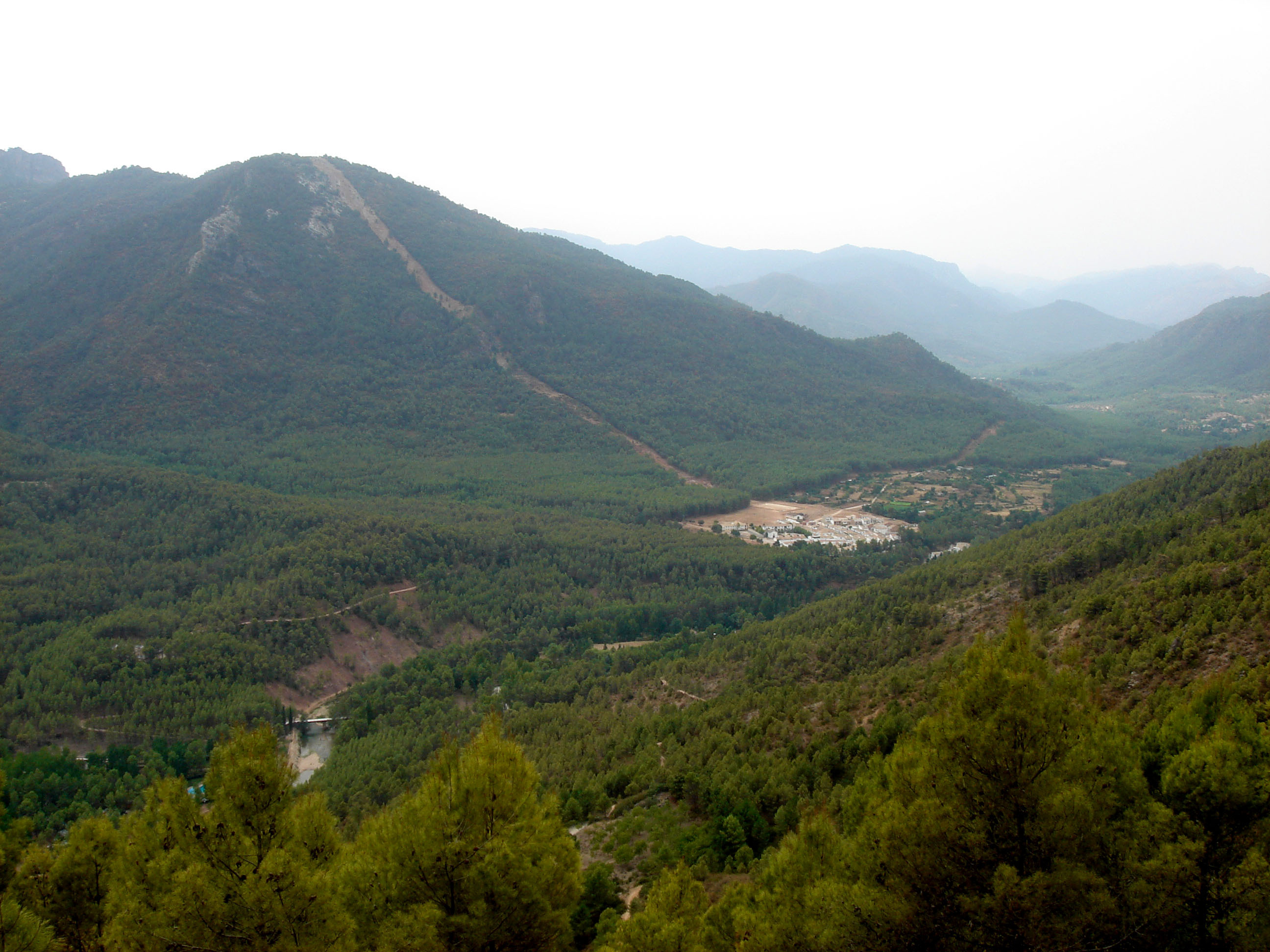 Coto Rios from the ascent to Hoya de Miguel Barba